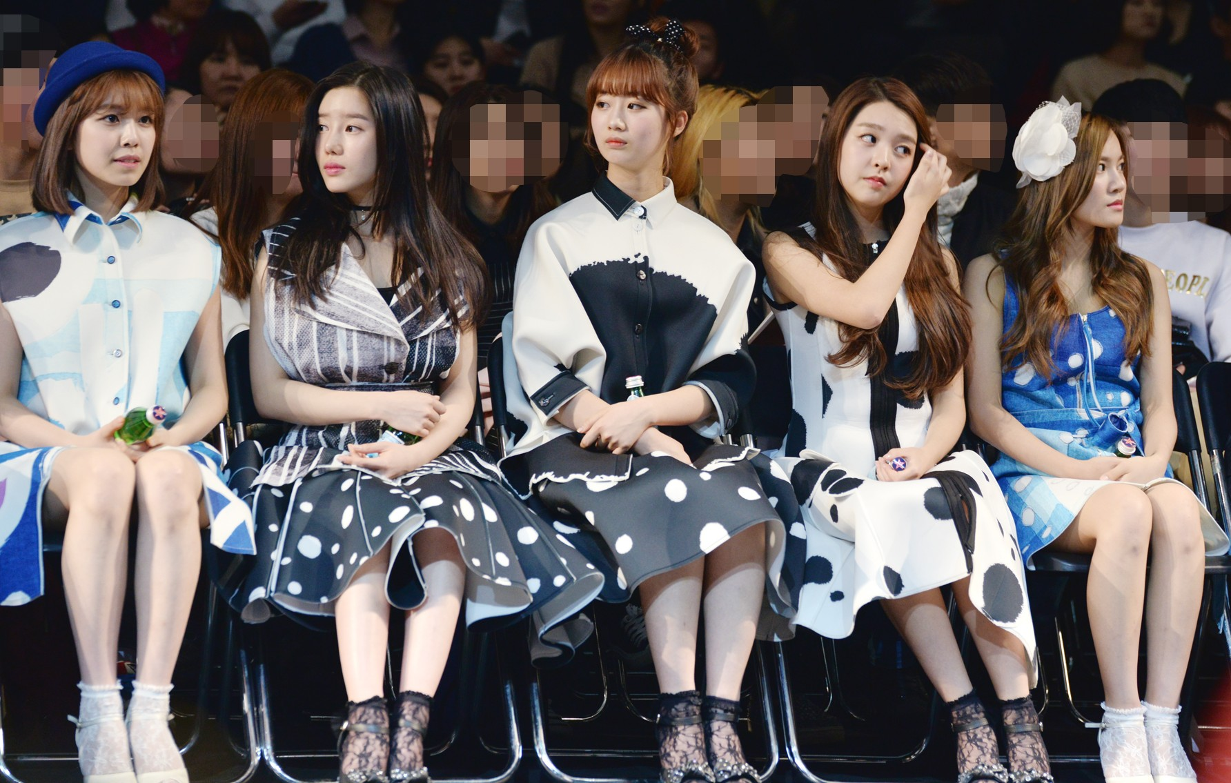 Berry Good at 2015 Seoul Fashion Week, 22 March 2015. Left to right: Gowoon, Taeha, Daye, Sehyung and Seoyul.